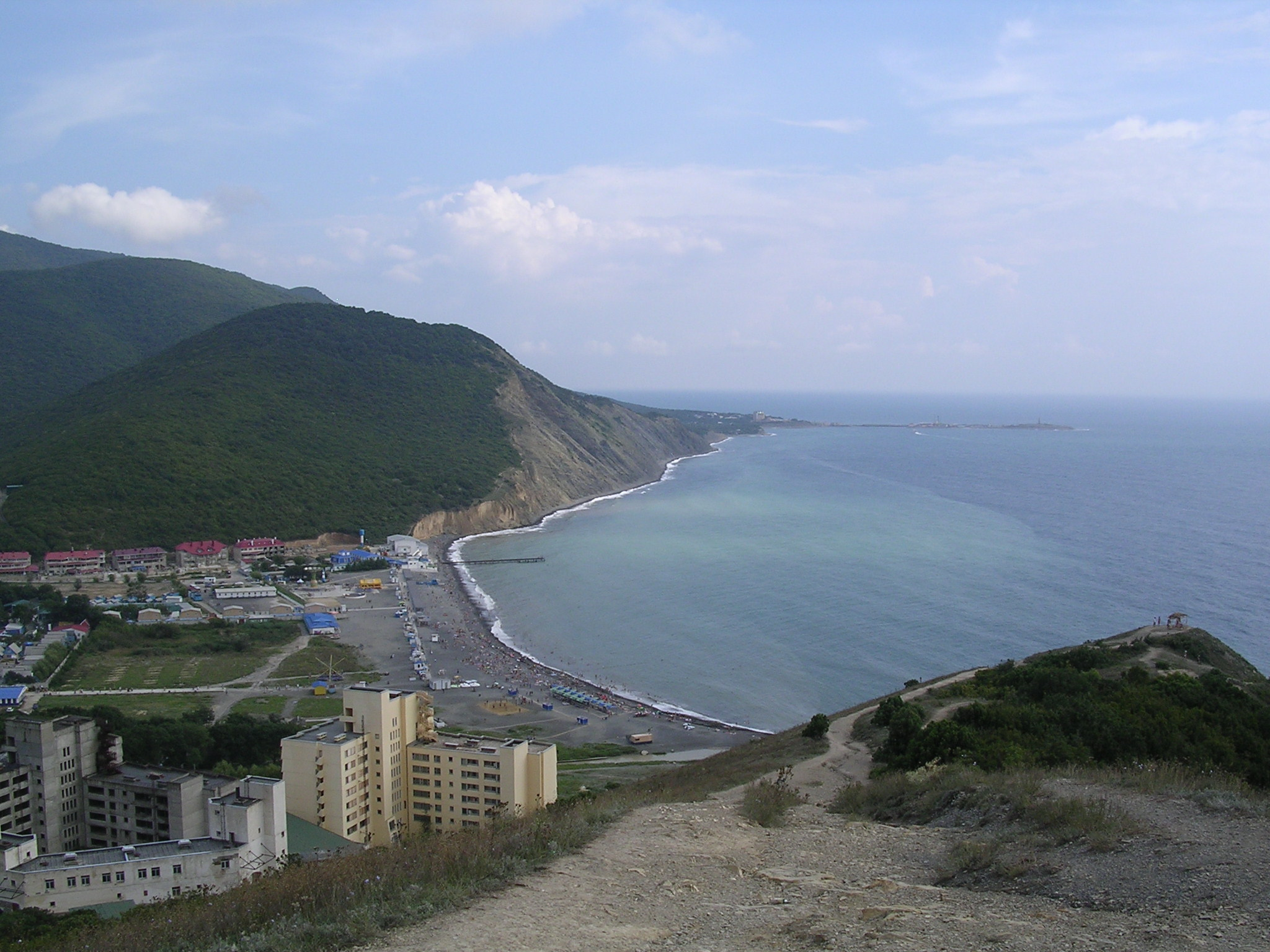 Author=Sergey Dukachev August 2004.